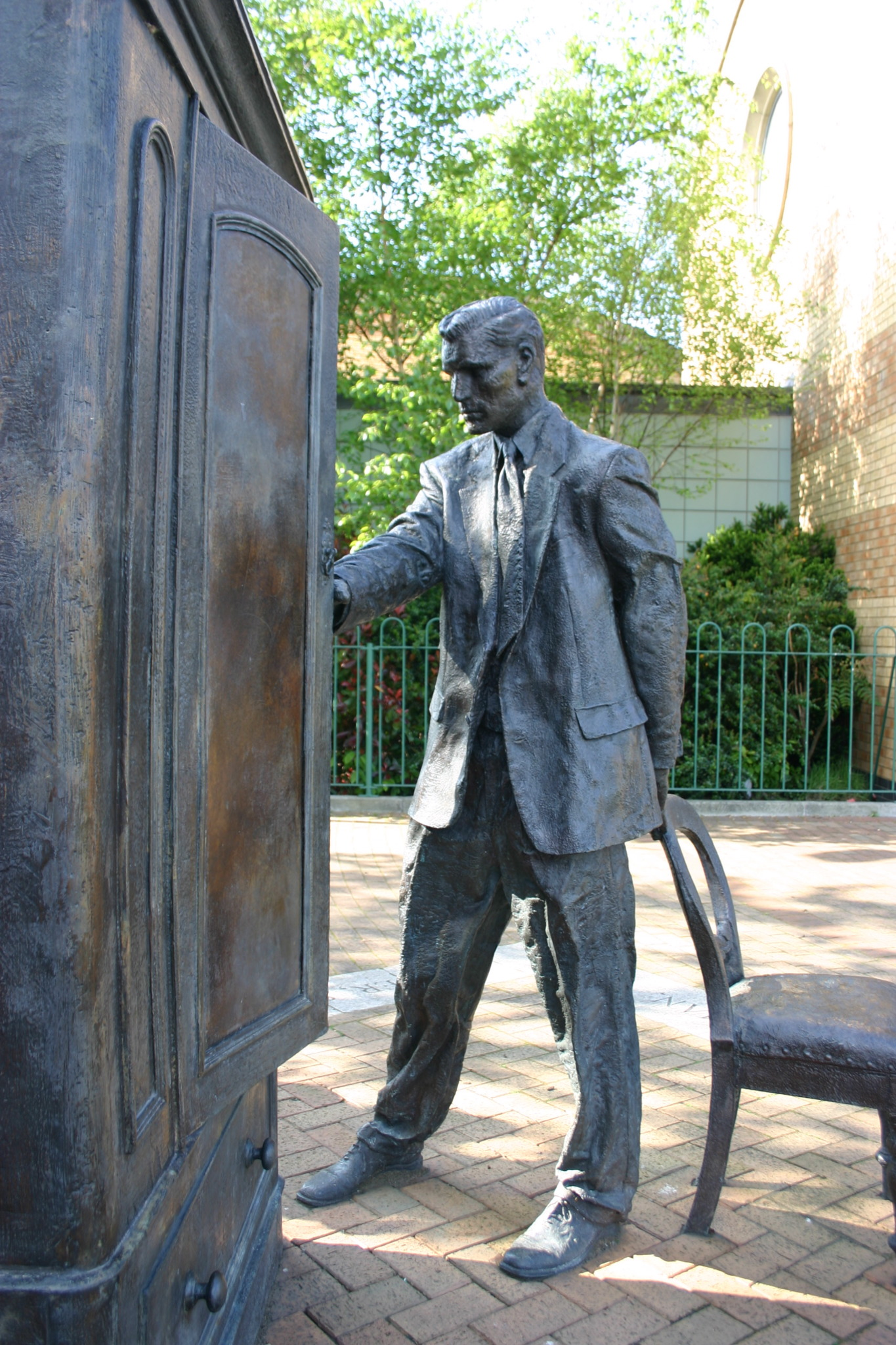 Statue of C. S. Lewis looking into a wardrobe. Entitled The Searcher by Ross Wilson.